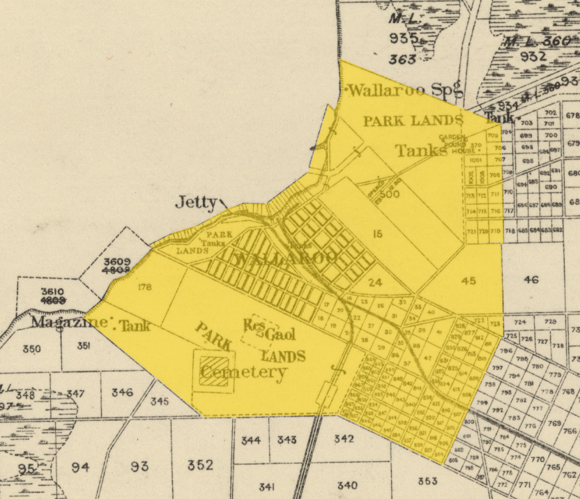 Wallaroo Town within the Hundred of Wallaroo, 1874 Based on public domain map ("Hundred of Wallaroo, 1888 (23675911382).jpg") and description of Corporate Town boundaries in 1874 at